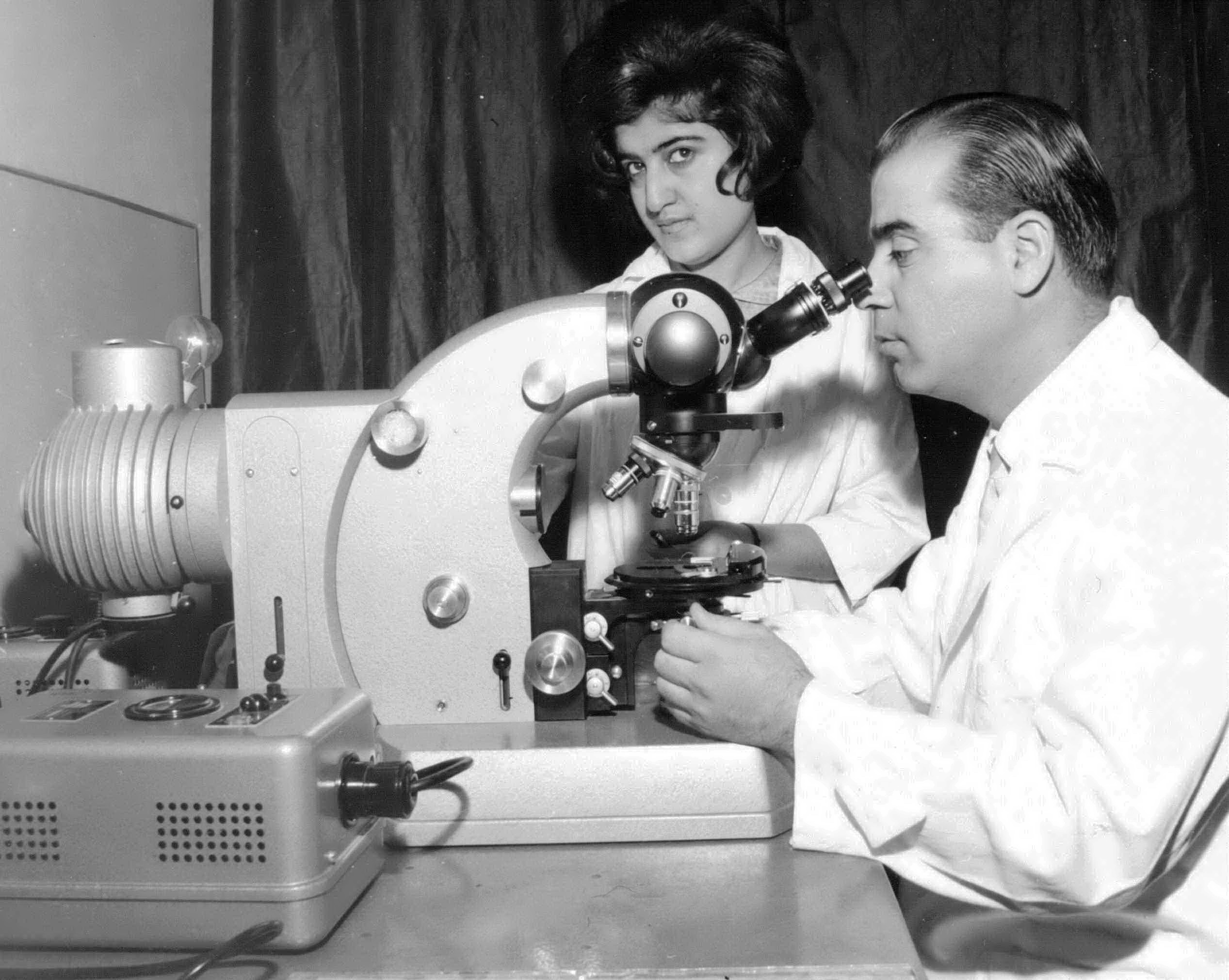 Nejat Hospital Lab-Monirieh, Tehran